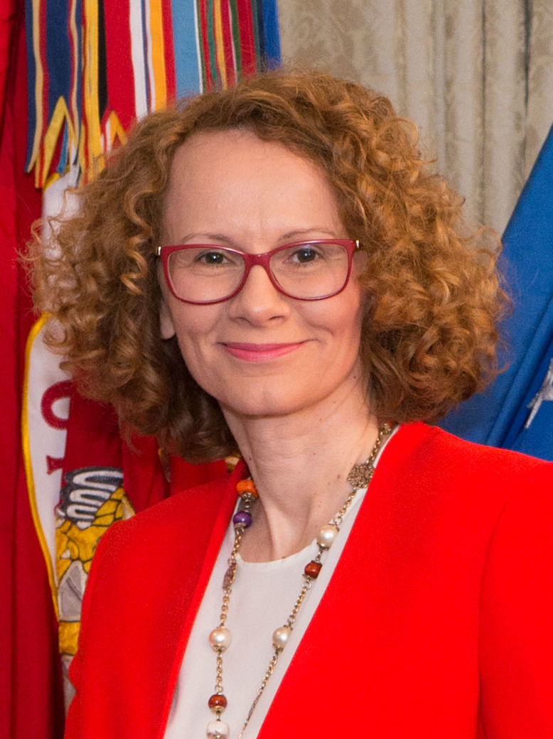 Defense Secretary James N. Mattis meets with the Minister of Defense of the Republic of Macedonia Radmila Šekerinska during a visit to the Pentagon in Washington, D.C. (180501-D-SV709-0173)